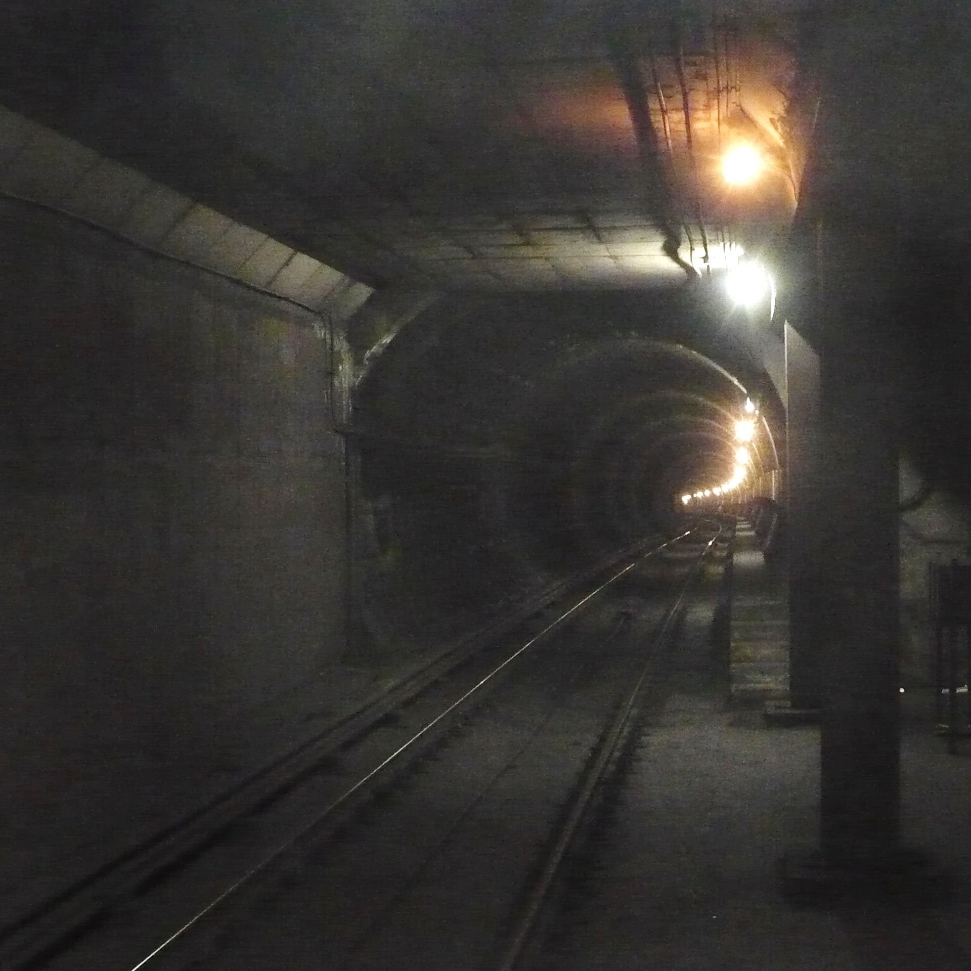 Northbound tracks of the TTC subway, approaching Museum station. You can see a short section of cut and cover construction before the bored tunnel begins.